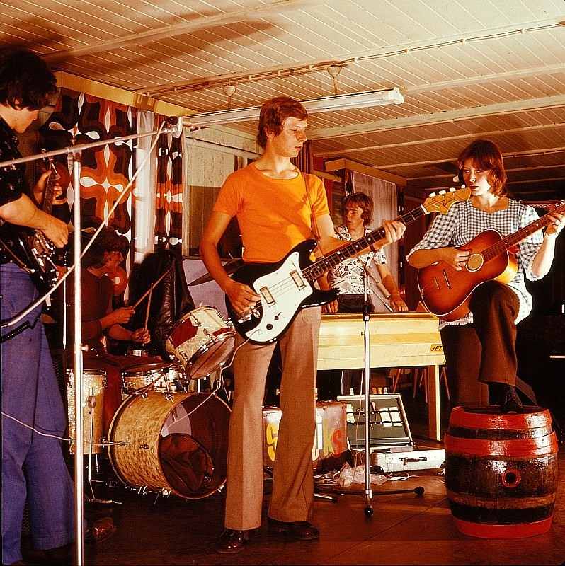 Original image description from the Deutsche Fotothek Tanzkapelle